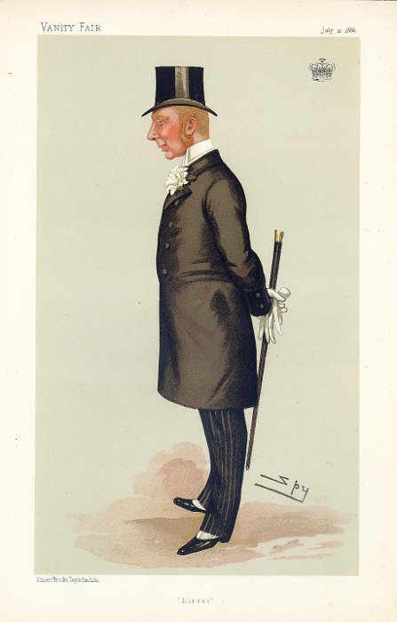 Statesmen No.492: Caricature of The Rt Hon The Earl of Lonsdale. Caption reads: "Horses"